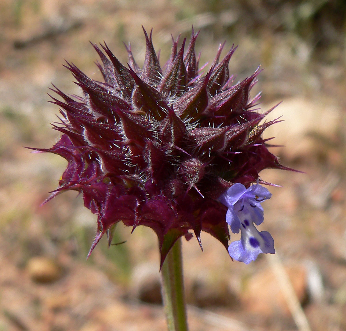 Salvia columbariae in the sandy area of Pine Creek Canyon east of the old homestead, Red Rock Canyon, Spring Mountains, southern Nevada (elev. about 1200 m)